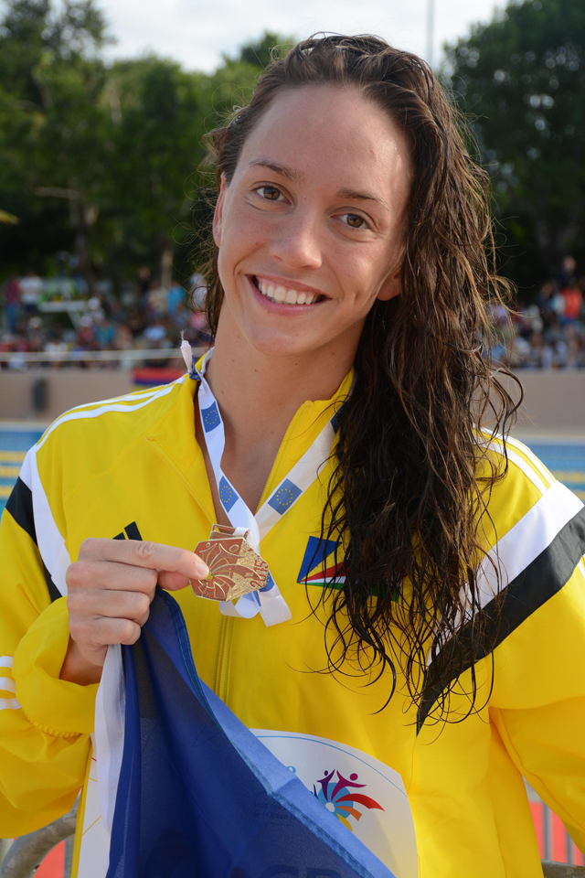 Seychellois swimmer Alexus Laird at the award ceremony of 9th Indian Ocean Island Games.